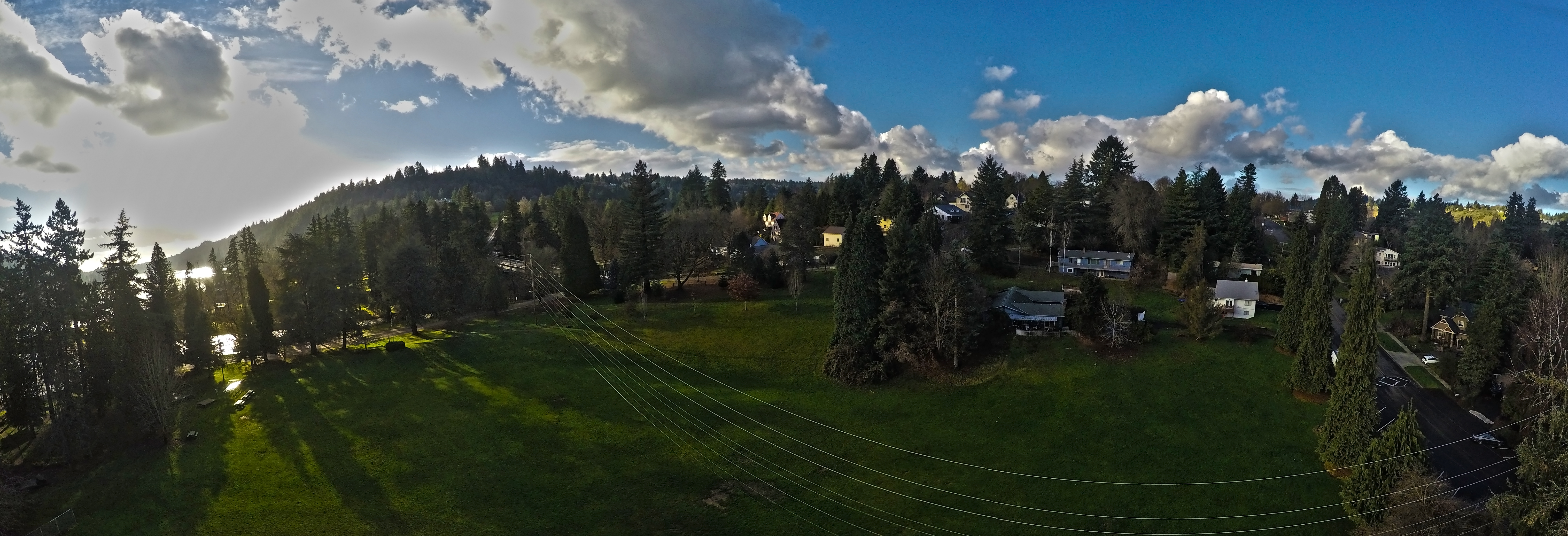 Willamette Park, Portland, OR DCIM\100GOPRO\G0112690.